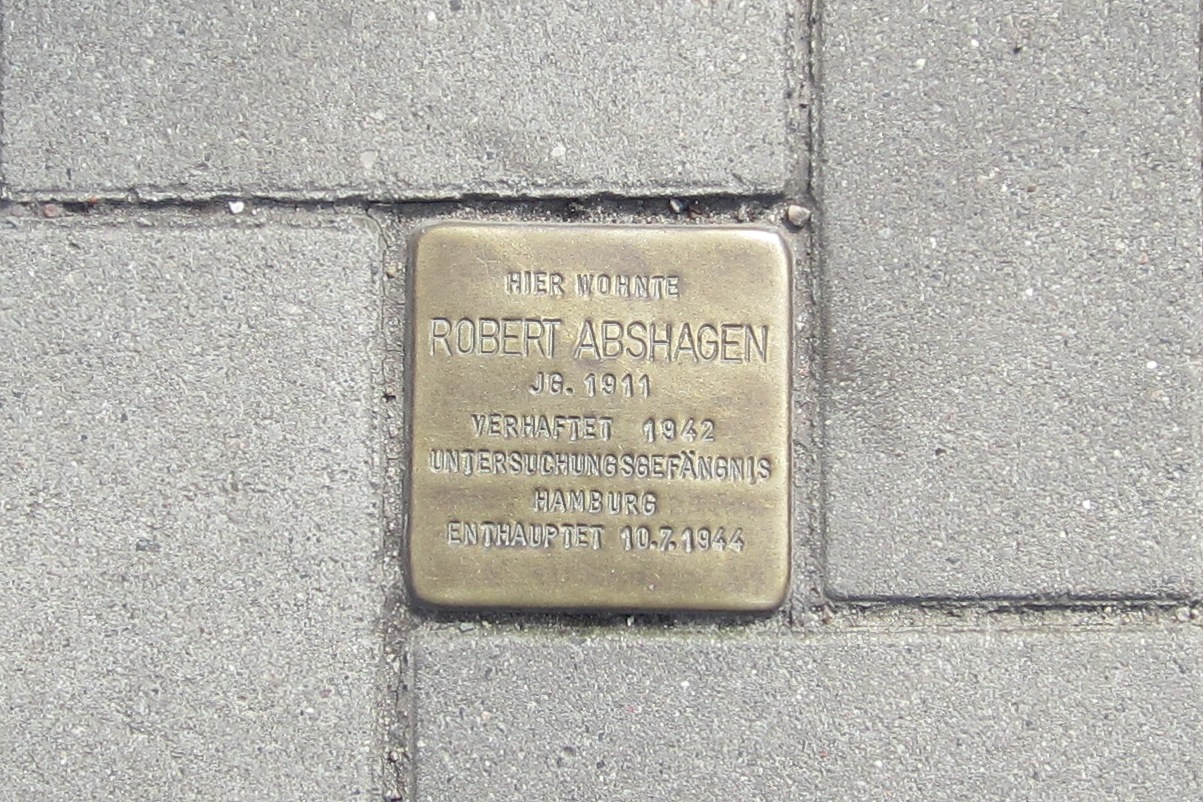 "Stolperstein" for Robert Abshagen in Hamburg (Barmbek), Wachtelstrasse 4 (the house itself is no longer existent)